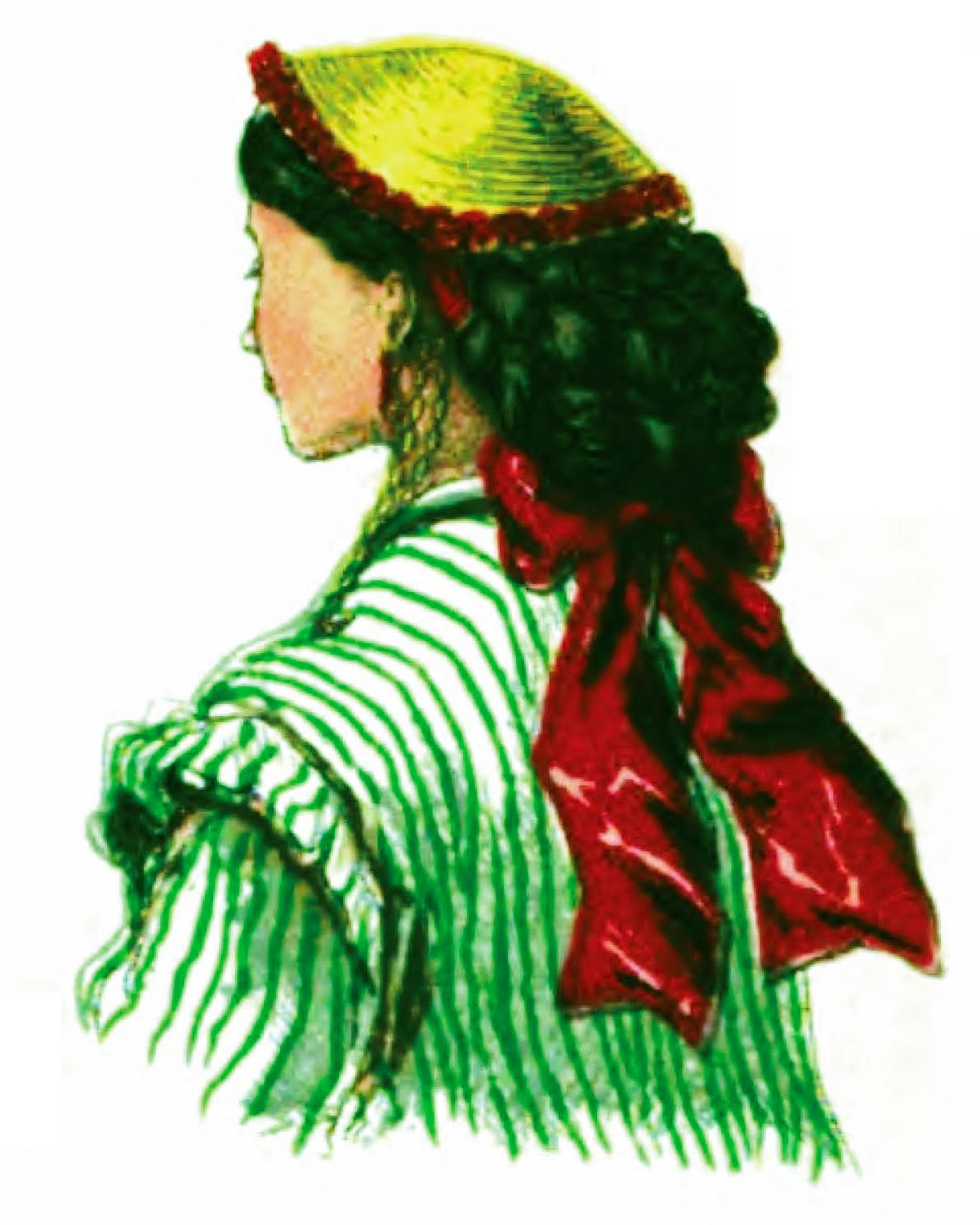 "Pamela fancy straw hat." Cropped from a coloured fashion plate showing various styles of French bonnets and hats from 1866.